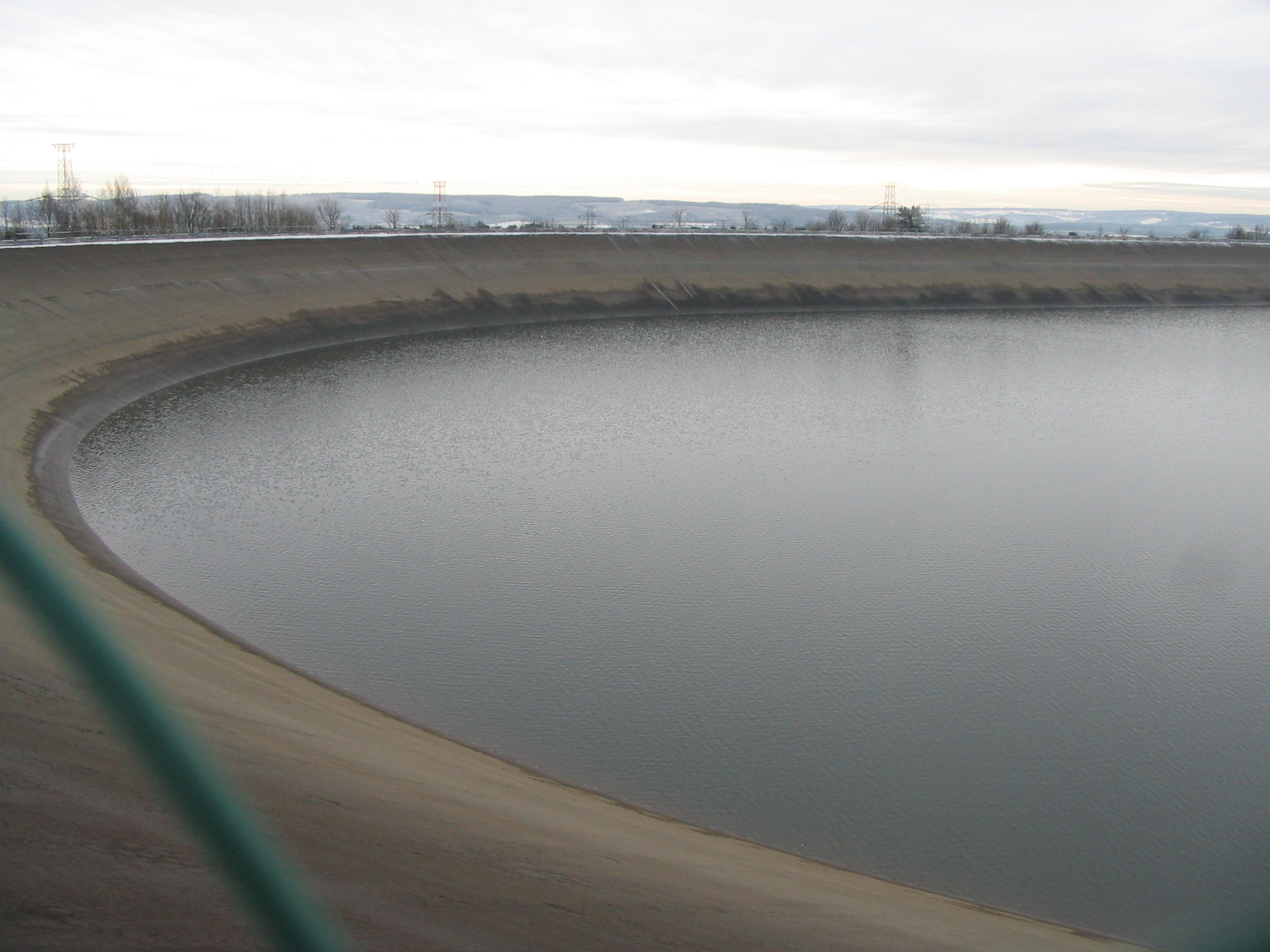 Coo II upper reservoir (Belgium)